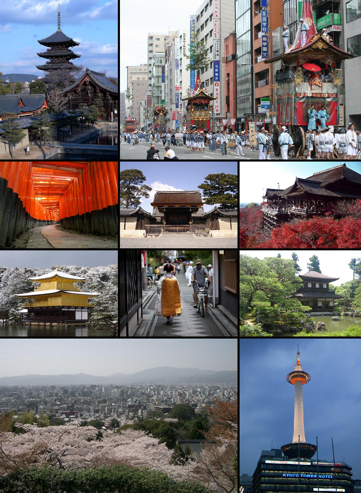 From top left: To-ji, Gion Matsuri, Fushimi Inari-taisha, Kyoto Palace, Kiyomizu-dera, Kinkaku-ji, Maiko at Ponto-cho, Ginkaku-ji, City view from Higashiyama and Kyoto Tower.